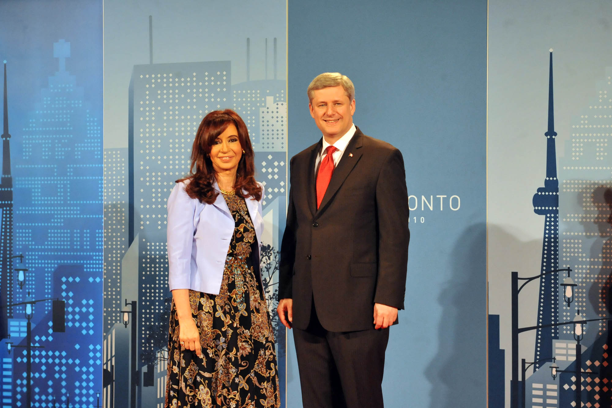 Argentine President Cristina Kirchner with Canada PM Stephen Harp in Toronto